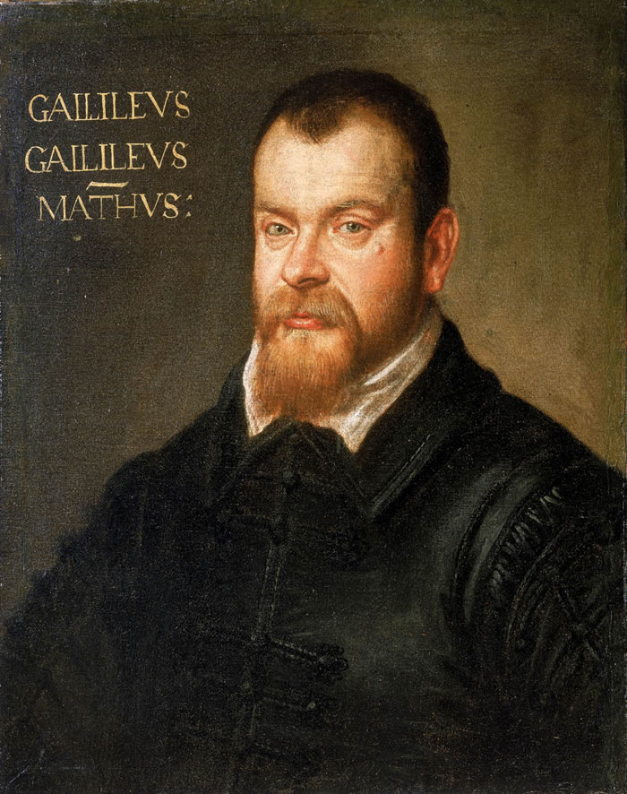 What appears to be a 'V' in the Latin inscriptions is a 'U'. The inscription adds a Latinizing ending to Galileo's names followed a Latin word for mathematician.